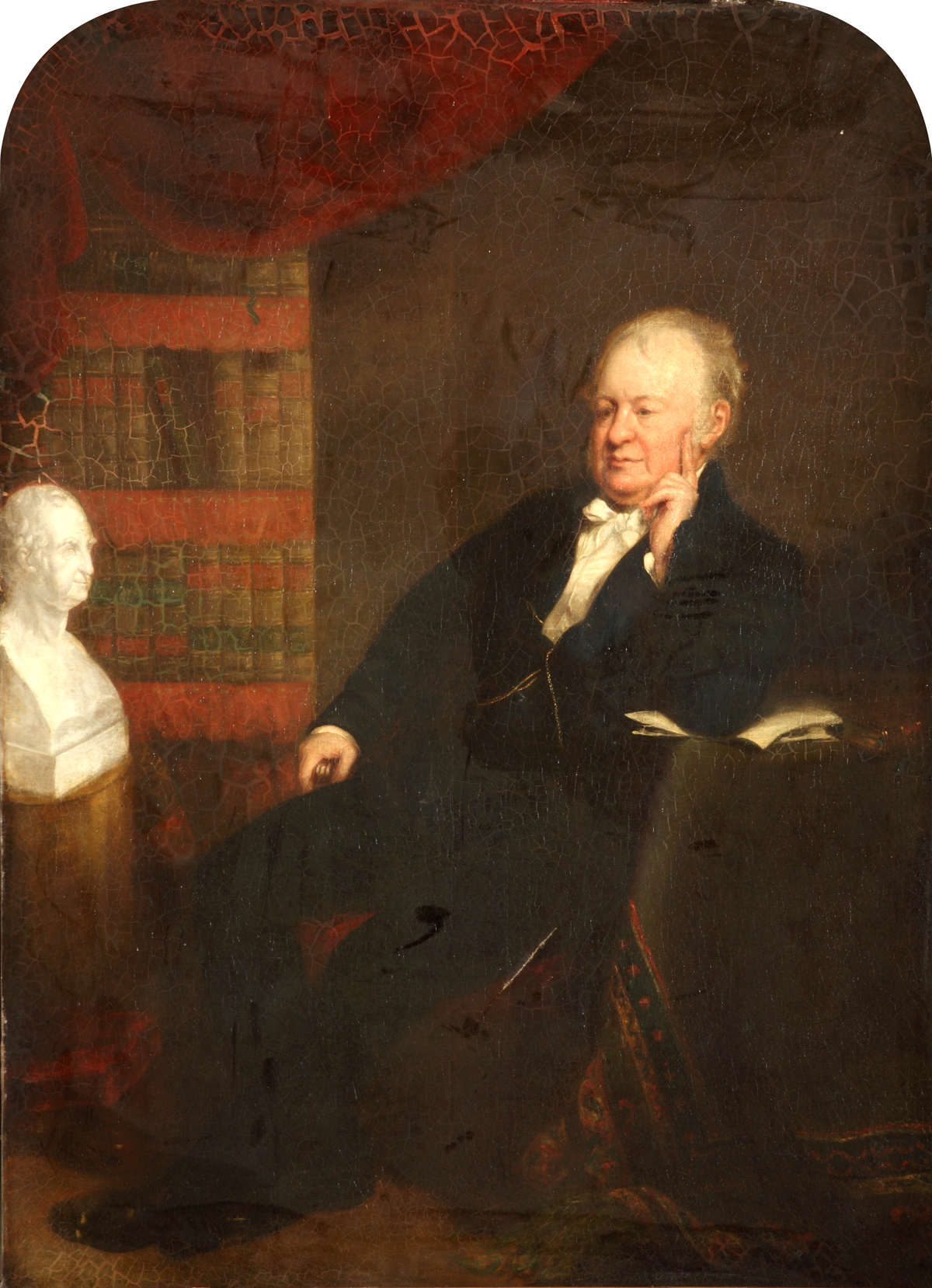 Portrait of William Shepherd